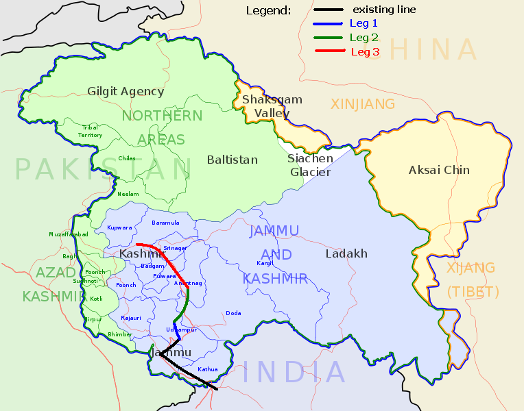 Kashmir railway is from Udhampur to Baramulla, railway till Udhampur (black line) is operational since 2005. 100km of 120km of Leg 3 (Black line) is currently operational. Leg 1 (blue) is expected to be completed by May 2011. Leg 2 (green) is expected to be completed by 2012-13. Leg 3 (red) was completed in 2009.